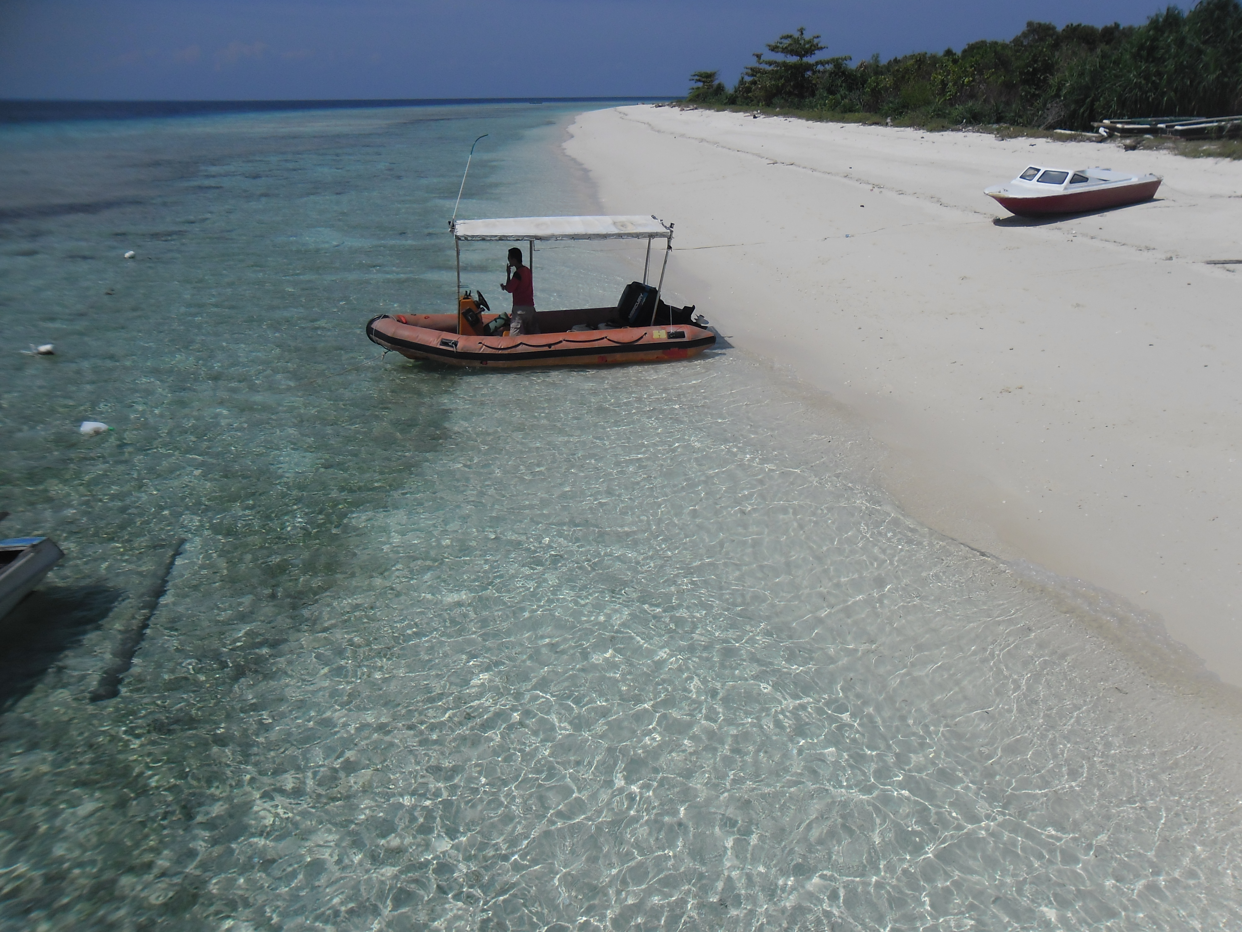 Turtle beach Pom Pom Island, semporna sabah